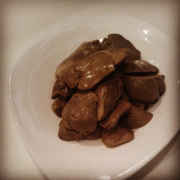 Liver, chinese style